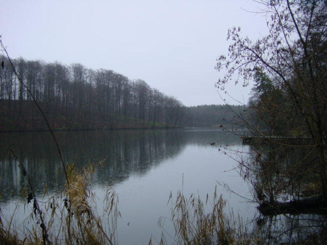 Rosensee (lake of roses) near Kiel, Germany.